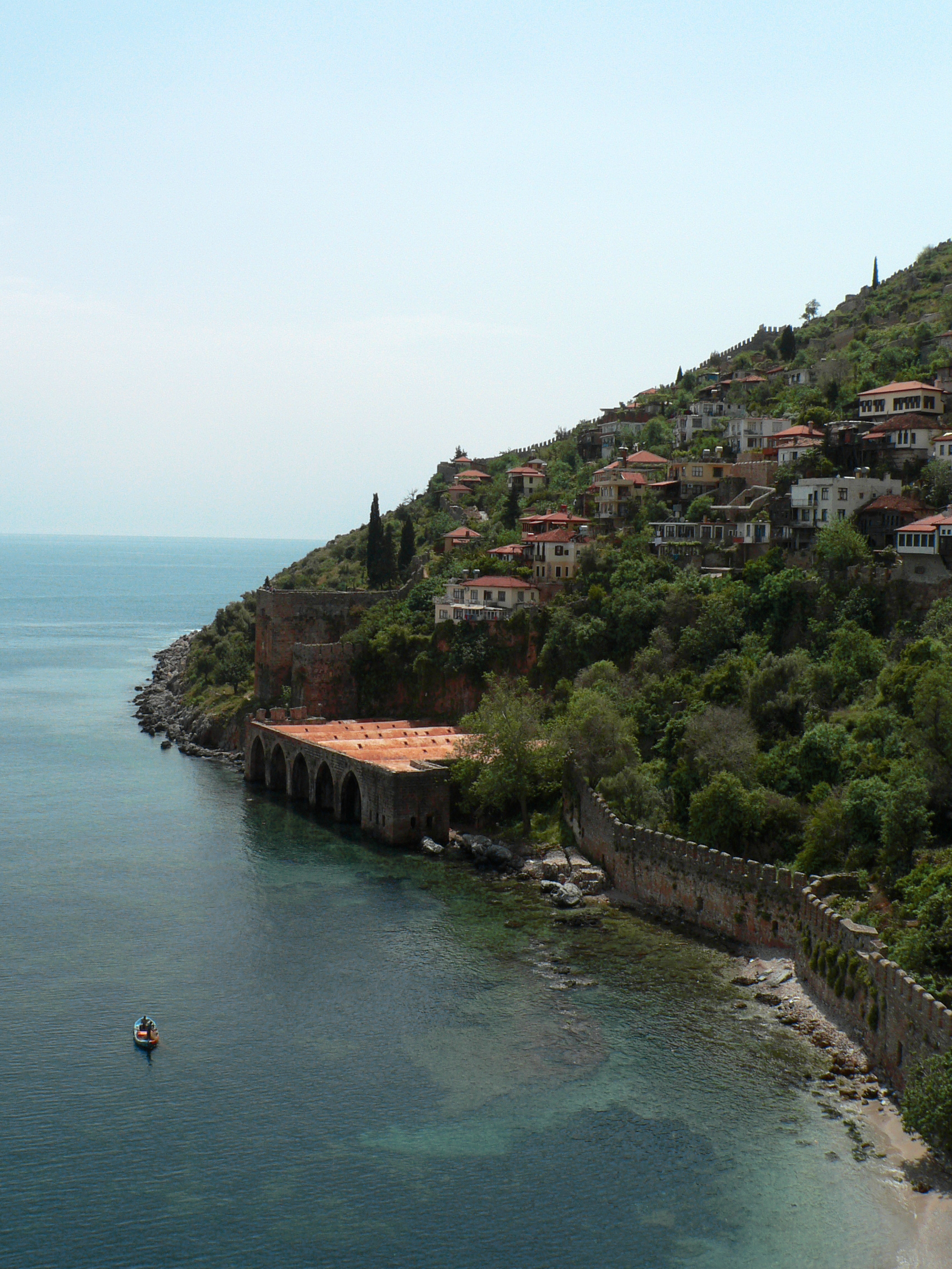 The medieval Tershane in Alanya, Turkey, as seen from the Red Tower next door. Built by the Seljuk Turks in 1221, 187 by 131 feet, is divided into five vaulted bays with equilateral pointed arches.